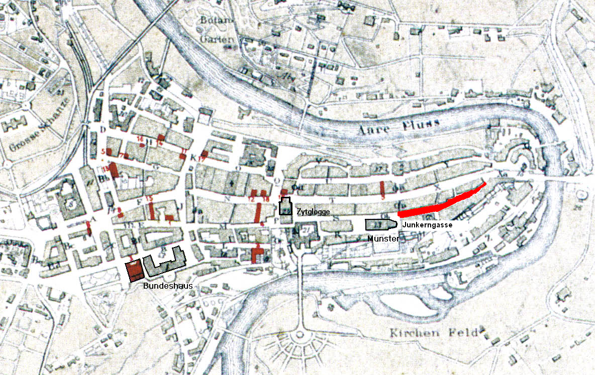 City plan of Bern, 1882. Scanned from BERN: Eine Stadt vor 100 Jahren, Bilder und Berichte; Peter Lauenberger, Emil Erne; München 1997; p. 7. Originally from Bern und seine Umgebungen, C.H. Mann, 1882 in the Alpines Museum of Bern. Due to the age of the image, it must be assumed that the author has been dead for more than 70 years. Copyright protection has therefore lapsed under Swiss copyright law (Art. 29 par. 3 URG).